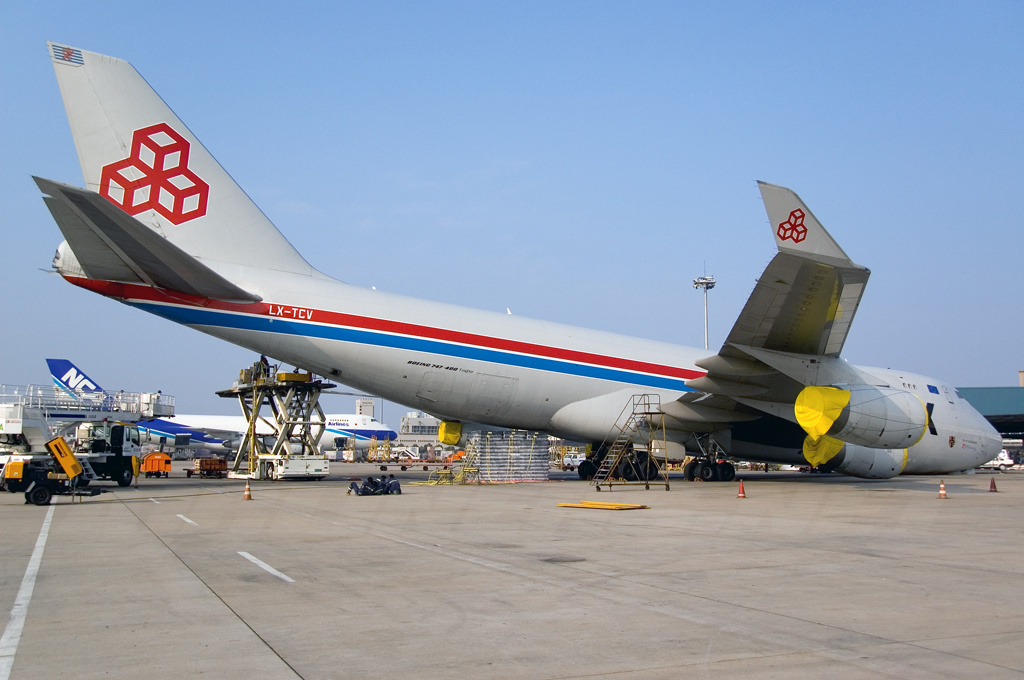 A Cargolux Boeing 747-4R7F/SCD in Shanghai Pudong International Airport (China), after the landing gear collapsed while the aircraft was on the ground